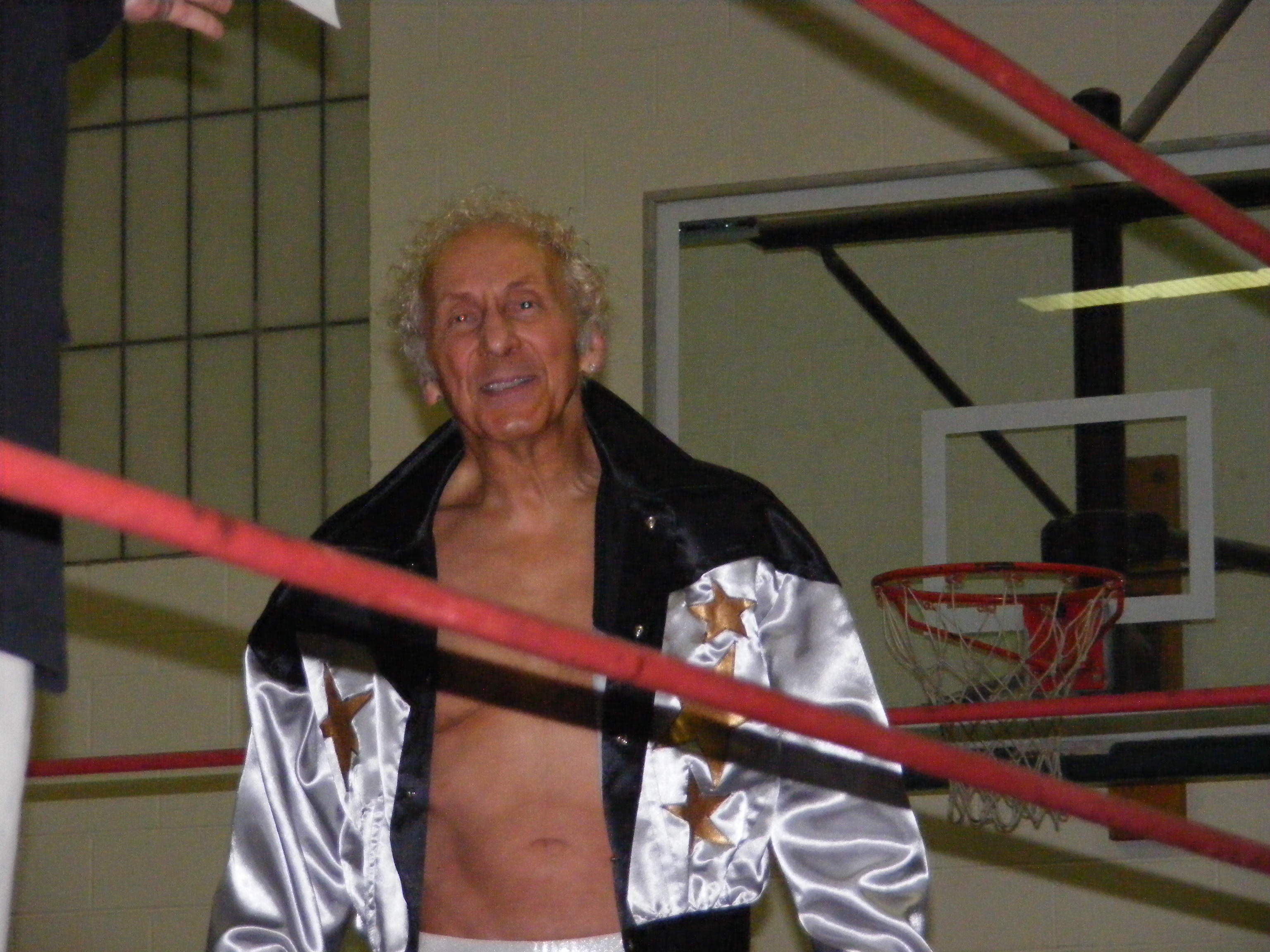 Robbie Ellis at an NLP on January 23, 2010 in Peabody, MA.